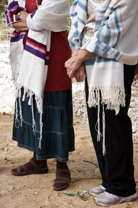 Women of the Wall